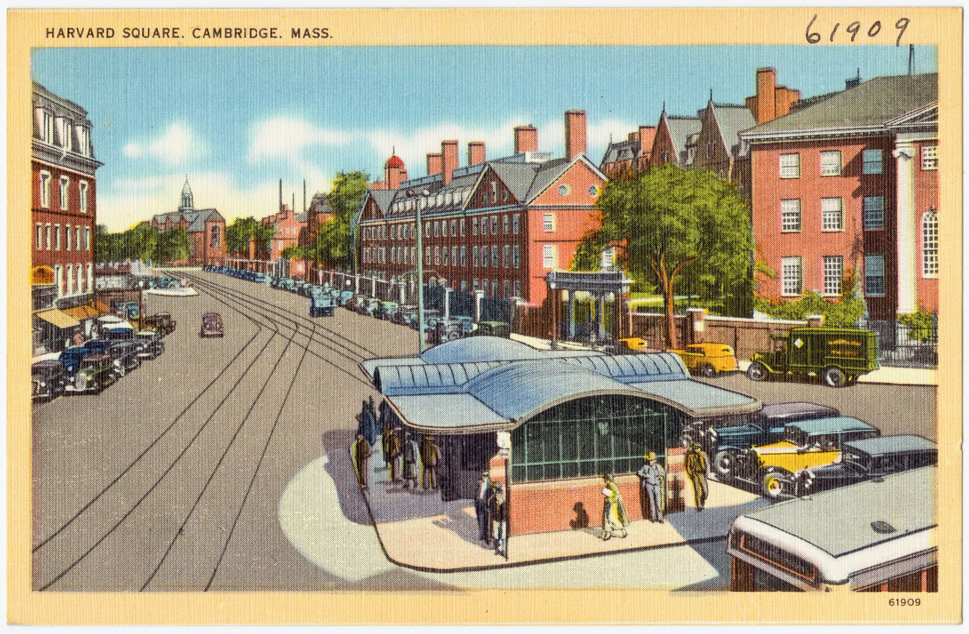 A Tichnor Brothers postcard of Harvard Square. It dates between 1931 (first linen postcards) and 1937 (Hemenway Gym demolished).